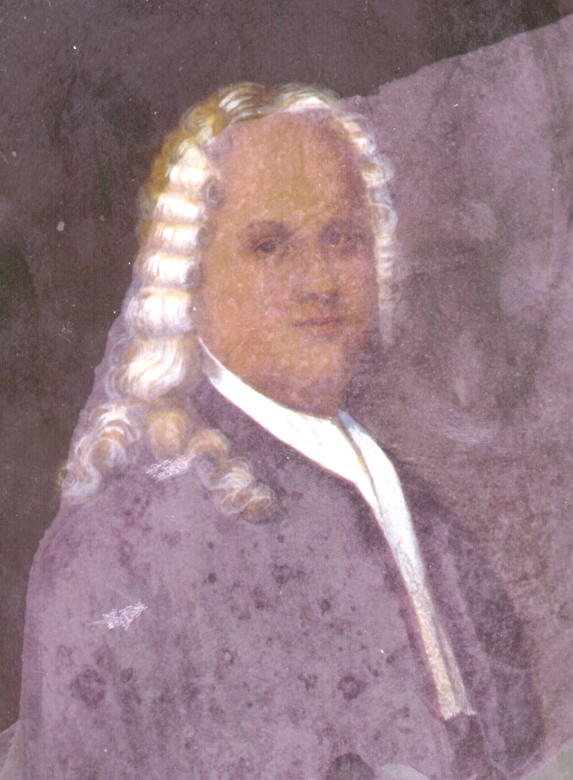 A reproduction of an 1879 painting of Samuel Carpenter, a white male with long white hair. He is standing side on with his right shoulder pointing towards the viewer.